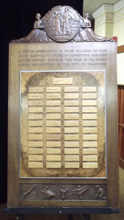 Plaque presented to Detroit for Champions Day. Bearing the signatures of president FDR as well as the governors from each state in 1936.